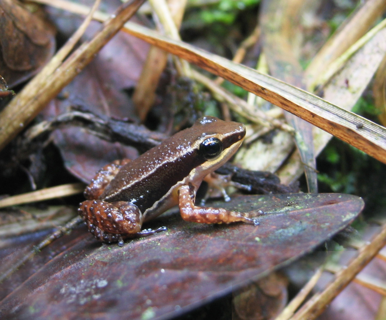 A frog in the hills (crater rim) around Santa Fé (Veraguas Province), Panamá. Sorry, forgot to name the file. I still need to rename a bunch of other files, so I'll do that then. It is a Silverstoneia flotator (Dunn, 1931) (Synonymy: Colostethus flotator Maxson and Myers, 1985)